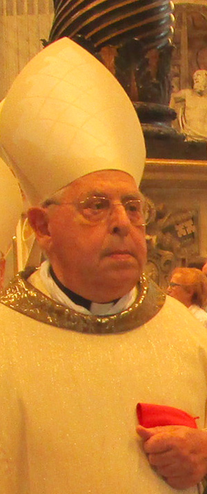 Cardinal Antonio Maria Vegliò, at Chair of Saint Peter.